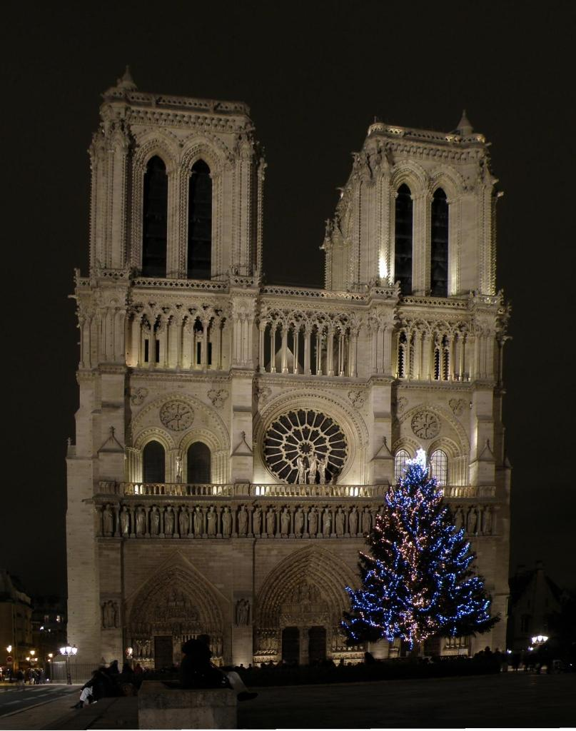 Notre Dame, Paris, France, Christmas